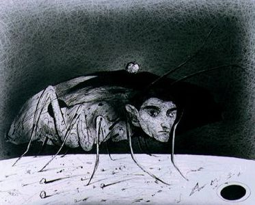 Un libro llamado metamorfosis y el proceso de franz kafka